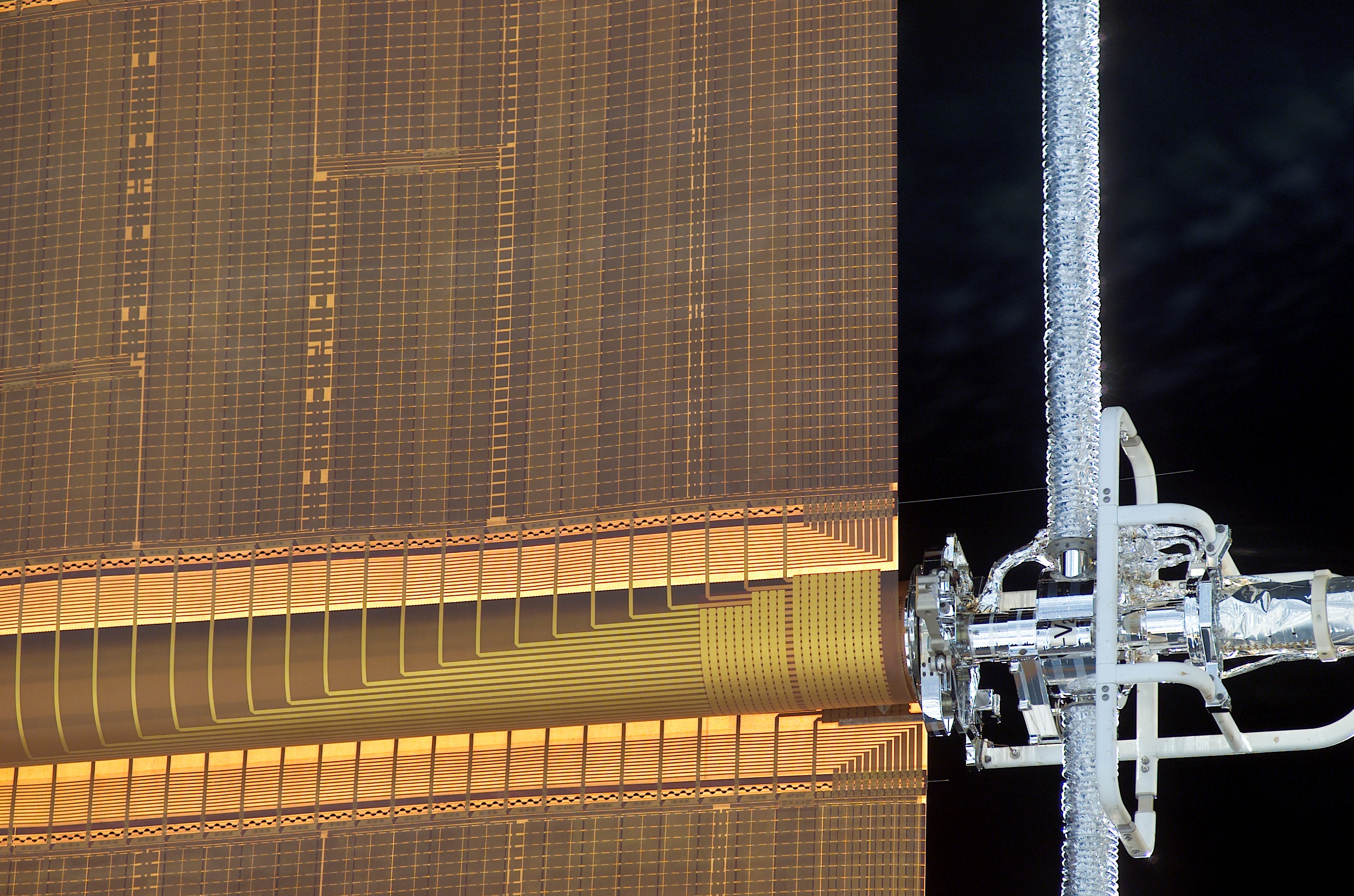 Close-up of Hubble's solar array